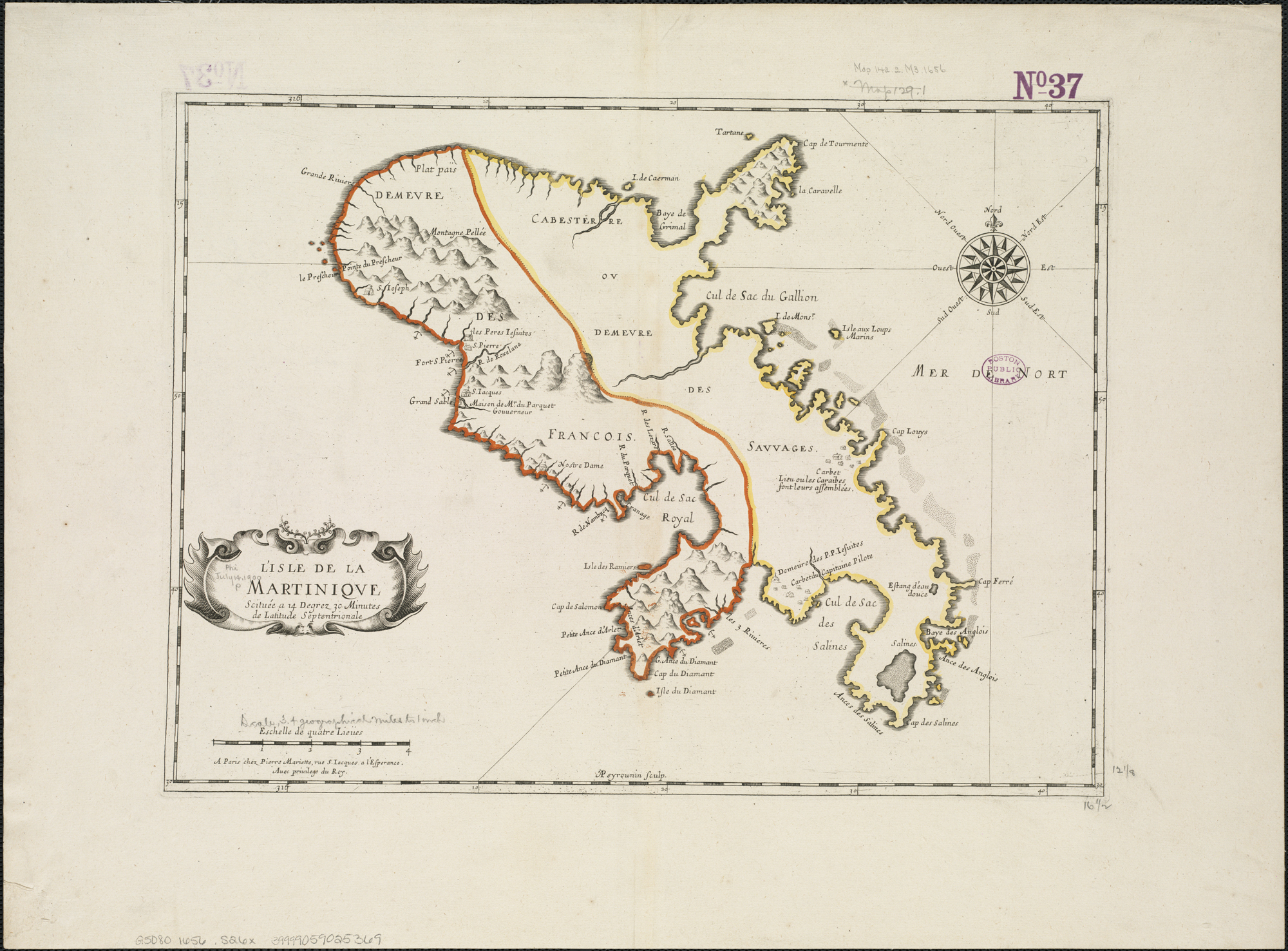 Zoom into this map at . Author: Sanson, Nicolas Publisher: Mariette, Pierre Date: 1656 Location: Martinique Dimension 31x42cm Scale: ca. 1:216,000 Call Number: G5080 1656 .S26x